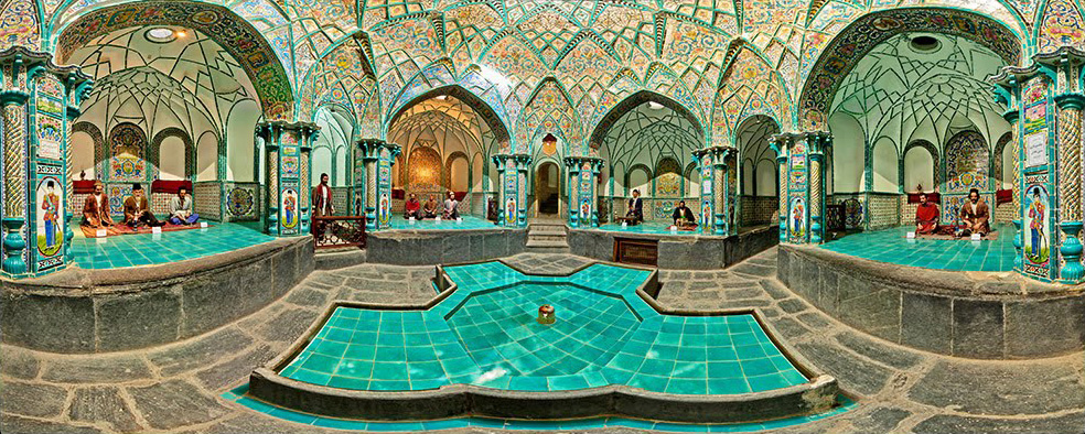 Historic 4 Season bathroom in Arak, has been converted to a cultural Museum.